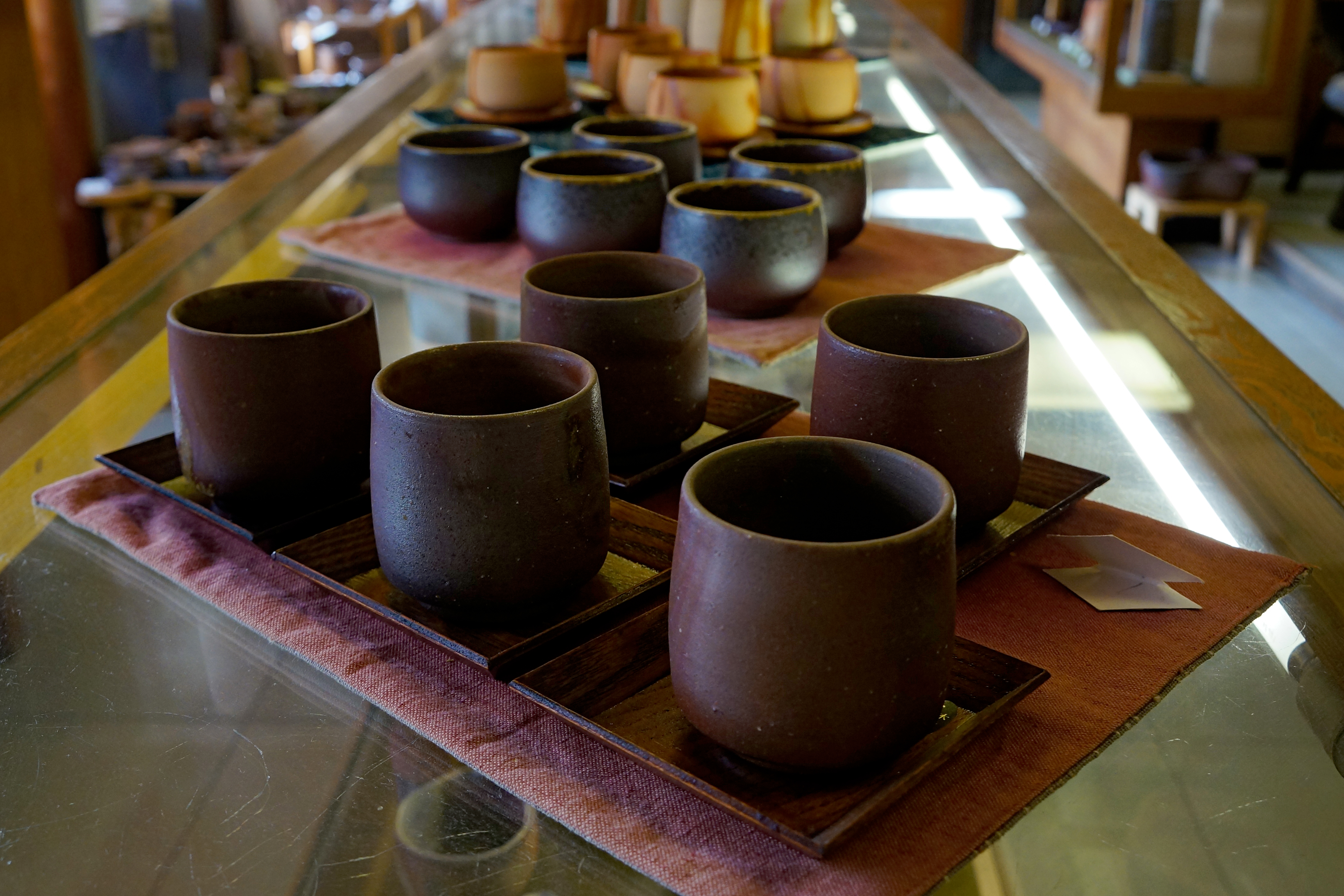 At Imbe, Bizen, Okayama prefecture, Japan